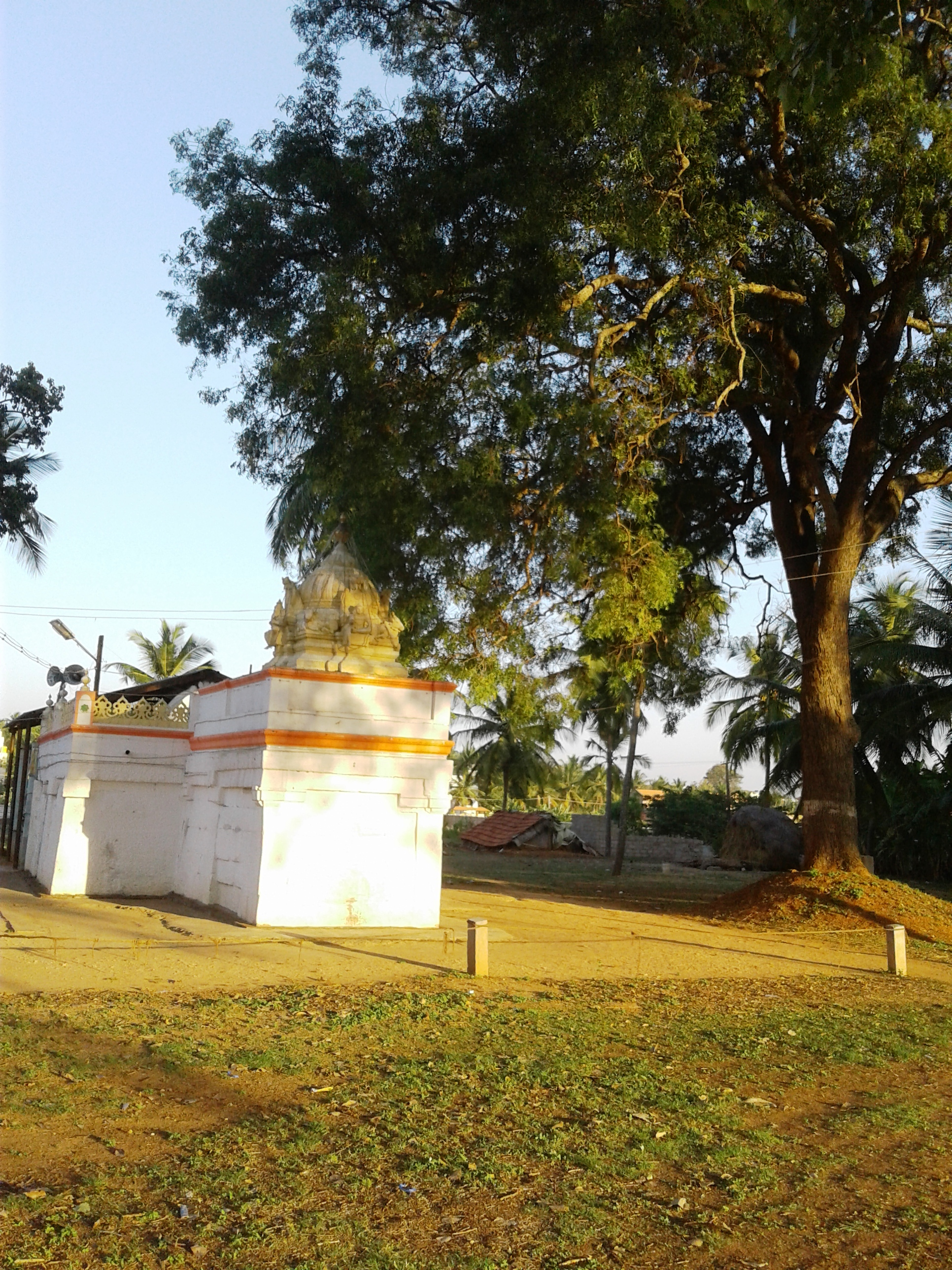 Nivedhitha Nagar, Mysore, Karnataka, India.